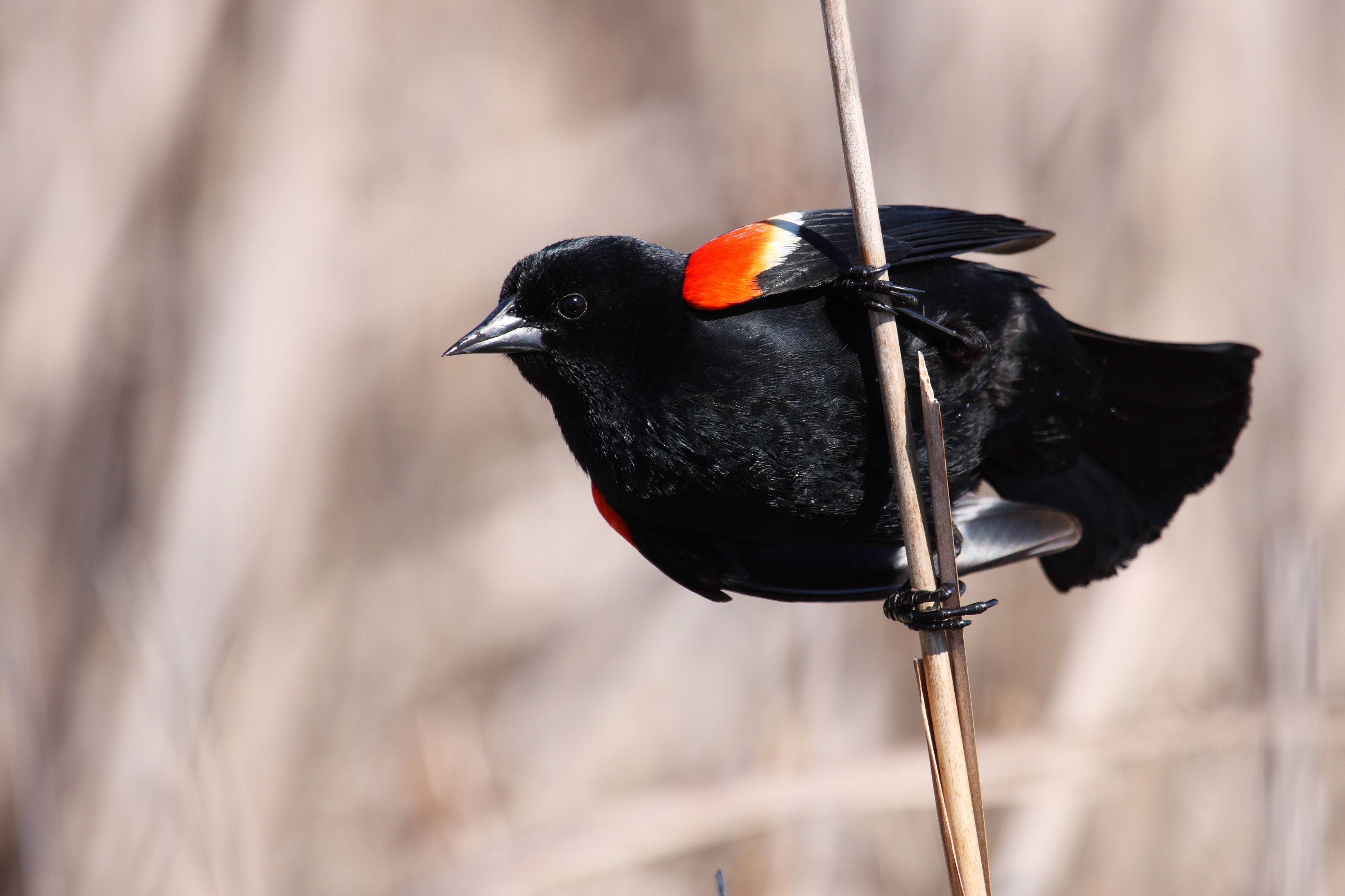 Red-winged Blackbird, Point Pelee National Park, Ontario, Canada